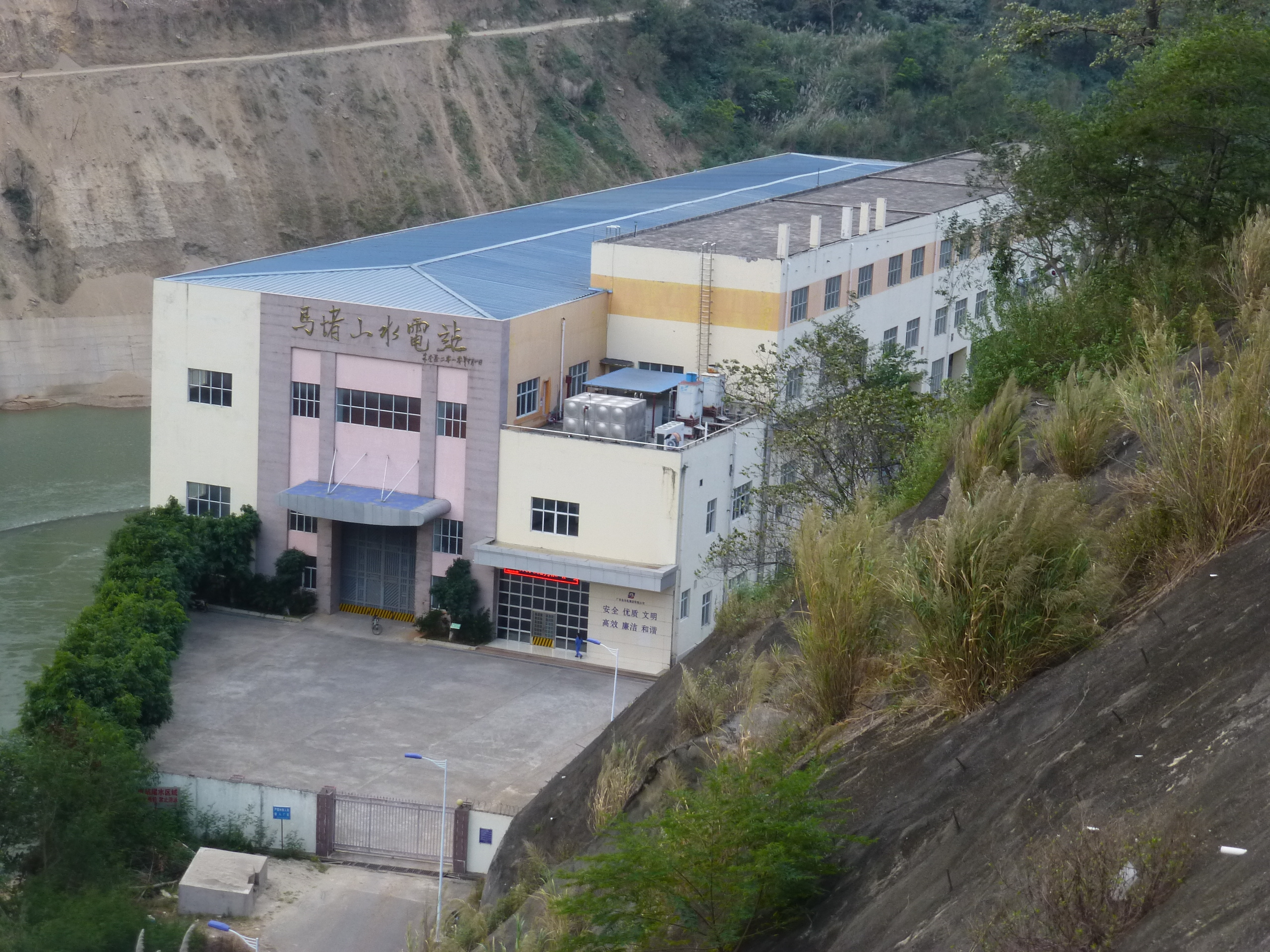 The Madushan Dam and hydroelectric plant on the Red River, a few km upstream from Manhao Town. At the southern end of the bridge, the Manhao Tunnel starts.